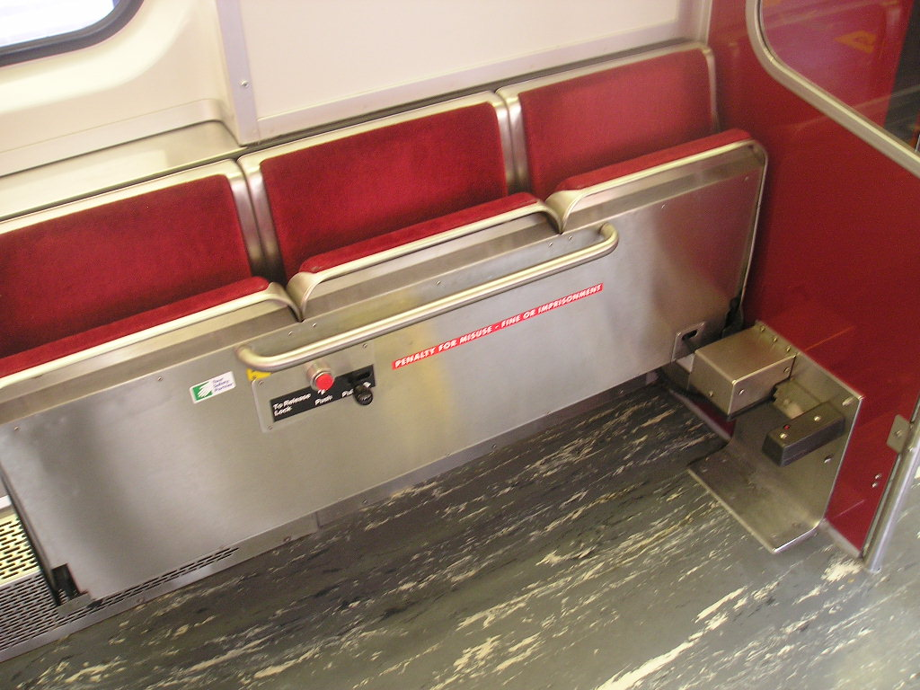 Flip up chair of a wheelchair spot on a T1 subway car